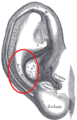 Wikipedia:Antihelix